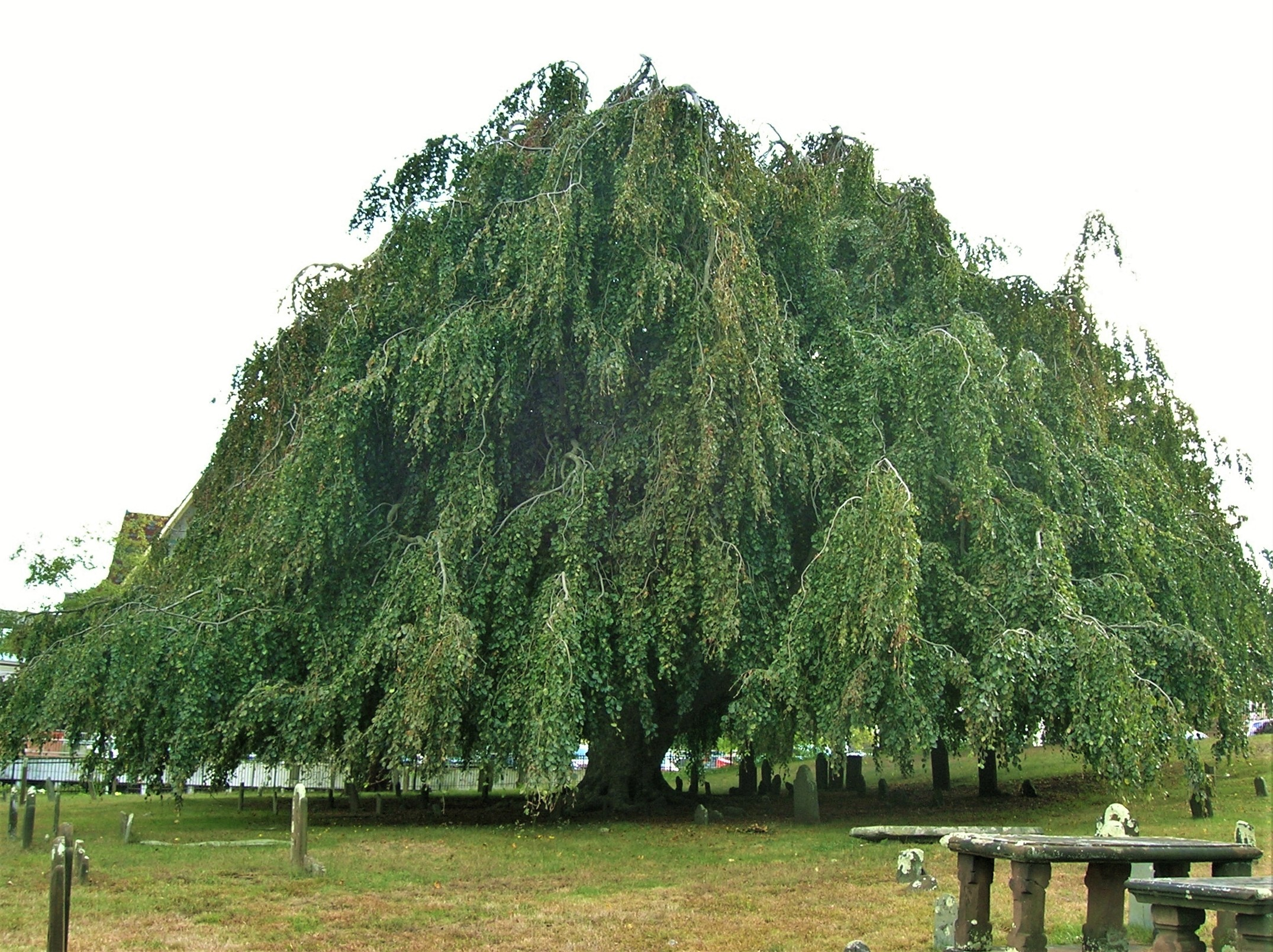 Photo of a weeping European beech tree located in Ye Antientist Burial Ground, New London, Connecticut. Photo taken October 6, 2014.